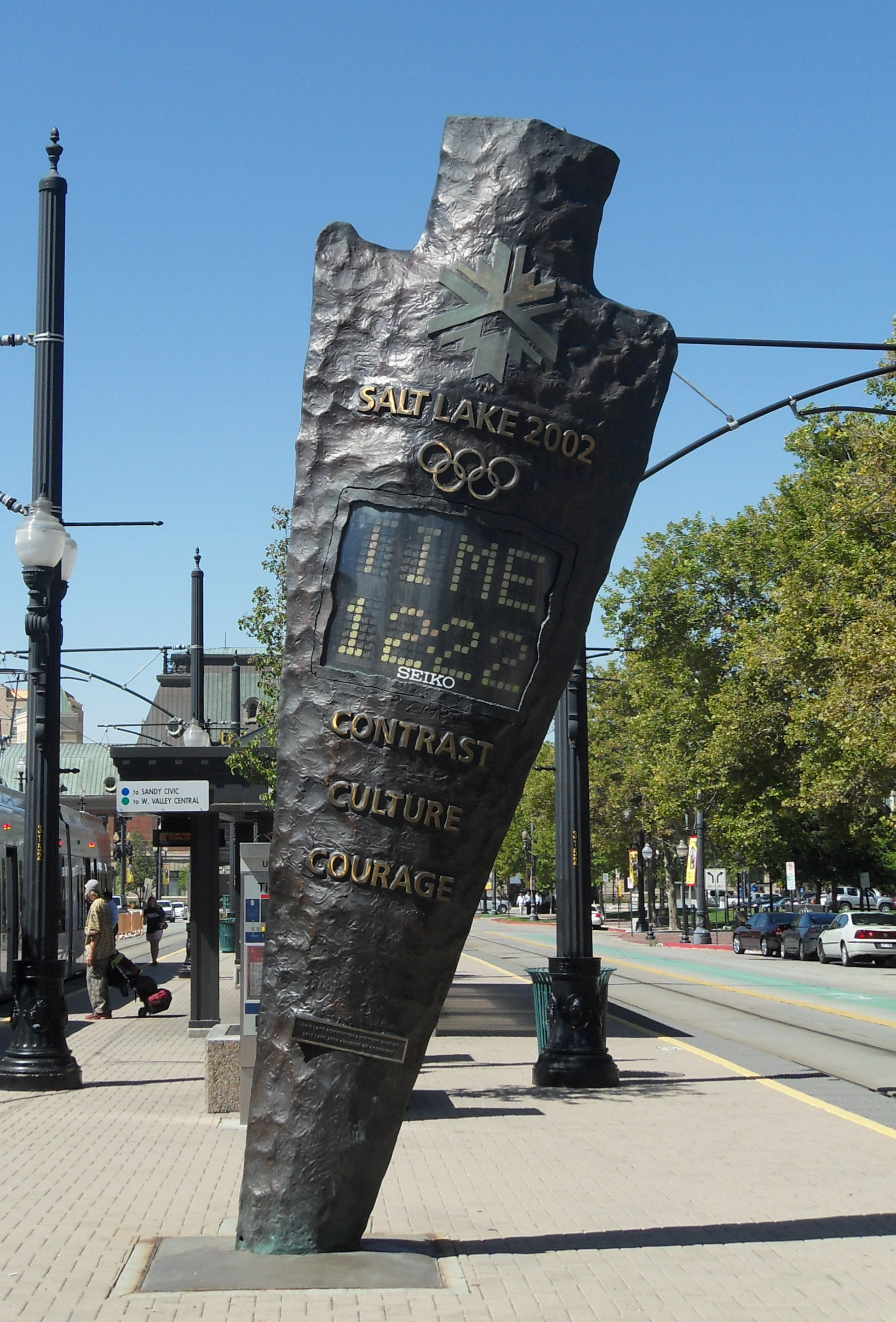 The official 2002 Winter Olympics Countdown Clock in downtown Salt Lake City. The clock sits on the northern end of the Arena UTA TRAX station. The clock was unveiled on May 15, 1999, and counted down from 1,000 days until the start of the 2002 games. When this TRAX station was built numerous Native American arrowheads were discovered, and the clock was designed as an arrowhead to recognize this.